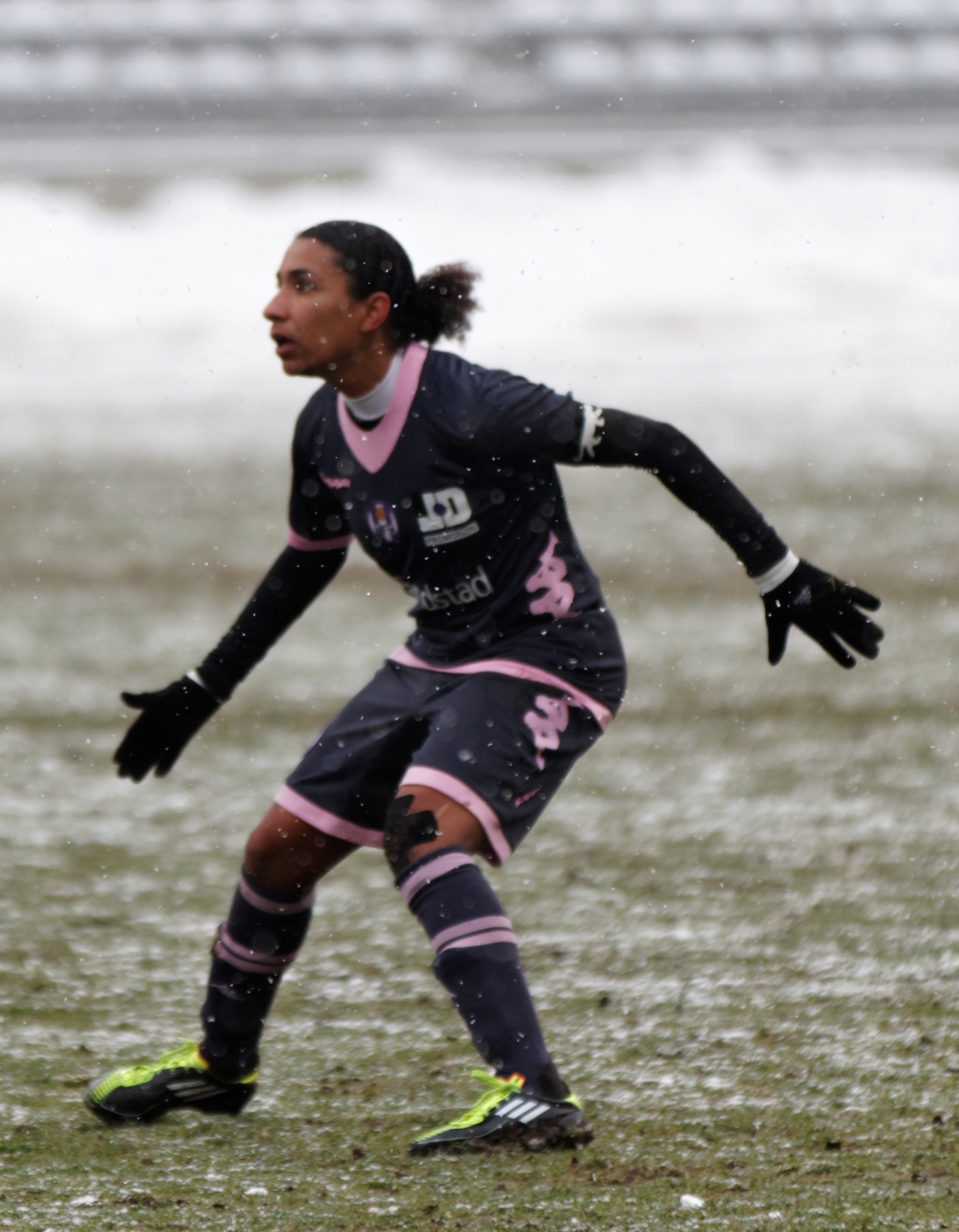 PSG-Toulouse, January 20th, 2013.